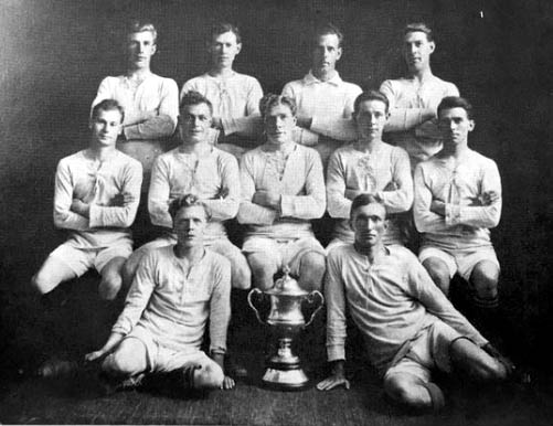 The Seacliff soccer team from Otago, NZ, first Chatham Cup winners.